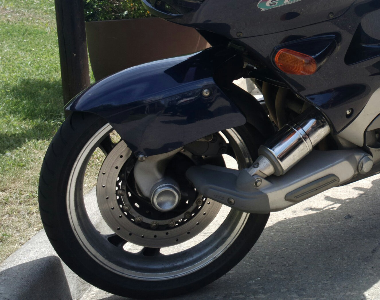 A cropped version of the original image to focus on the front swingarm and brake assembly.